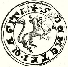 Seal of Hungarian noble Demetrius I Csák (13th-century)